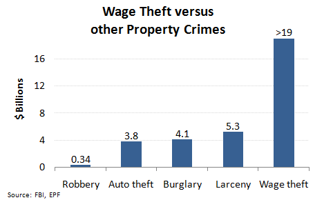 Wage theft versus other property crimes (robbery, burglary, larceny, and auto theft) in terms of monetary loss.